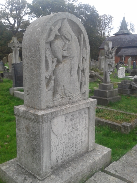 The Frederick Coplestone Memorial is located in Handbridge, just on the outskirts of Chester in Overleigh New Cemetery. Frederick Charles Copleston was born 10 April 1907 near Taunton, Somerset, England. He created a multi-volume book called the History of Philosophy (1946–75), one of Copleston's most significant contributions to modern philosophy was his studies on the theories of Saint Thomas Aquinas.